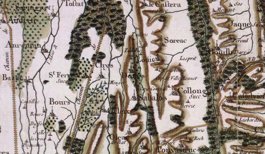 Village of Dours (Hautes-Pyrénées - France) on the Carte de Cassini